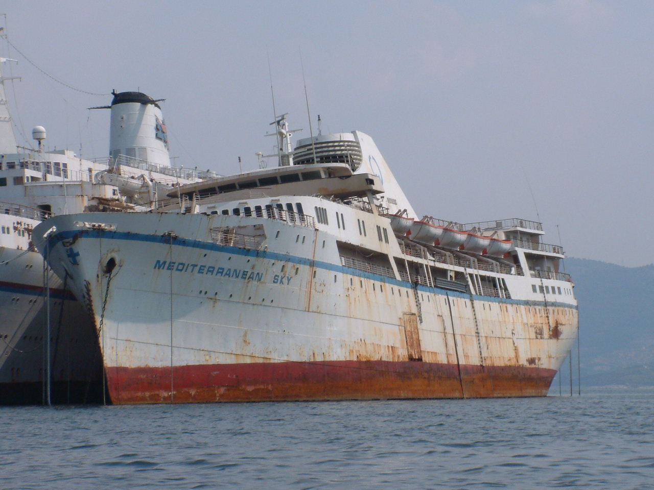 The cruise ship Mediterranean Sky laid up in Eleusis on August 9, 2002.